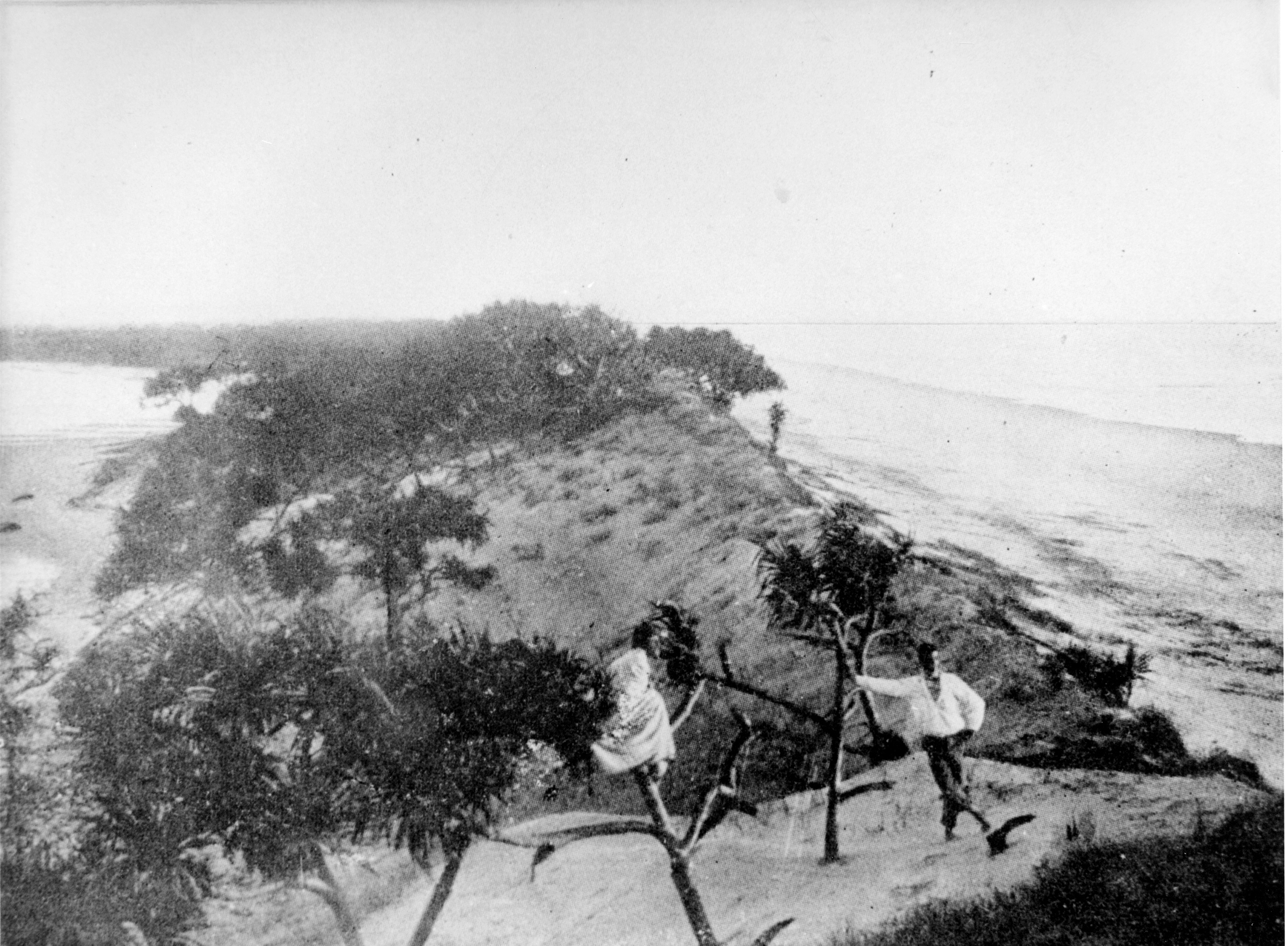 Jumpinpin, the narrow stretch of land that once joined North and South Stradbroke Islands, circa 1890